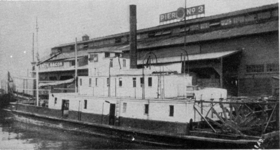 The steamer Fidalgo, somewhere on Puget Sound, probably Seattle.